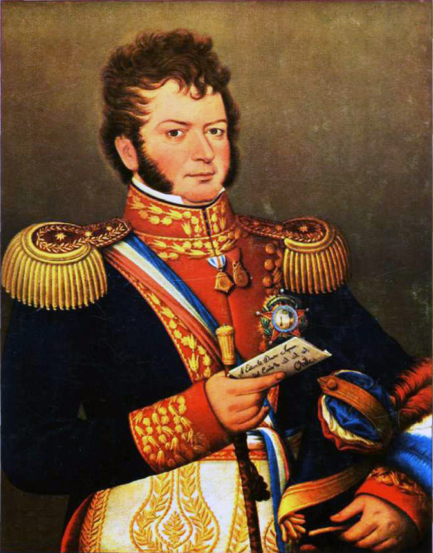 Portrait of Bernardo O'Higgins holding the Chilean Constitution.